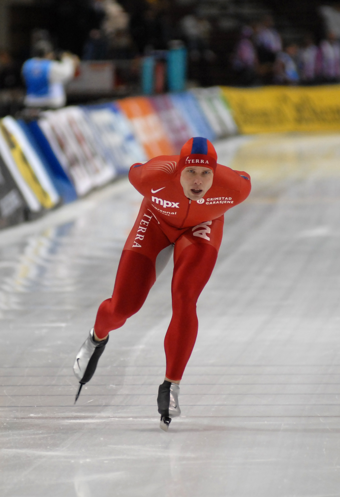 Eskil Ervik is a Norwegian speedskater